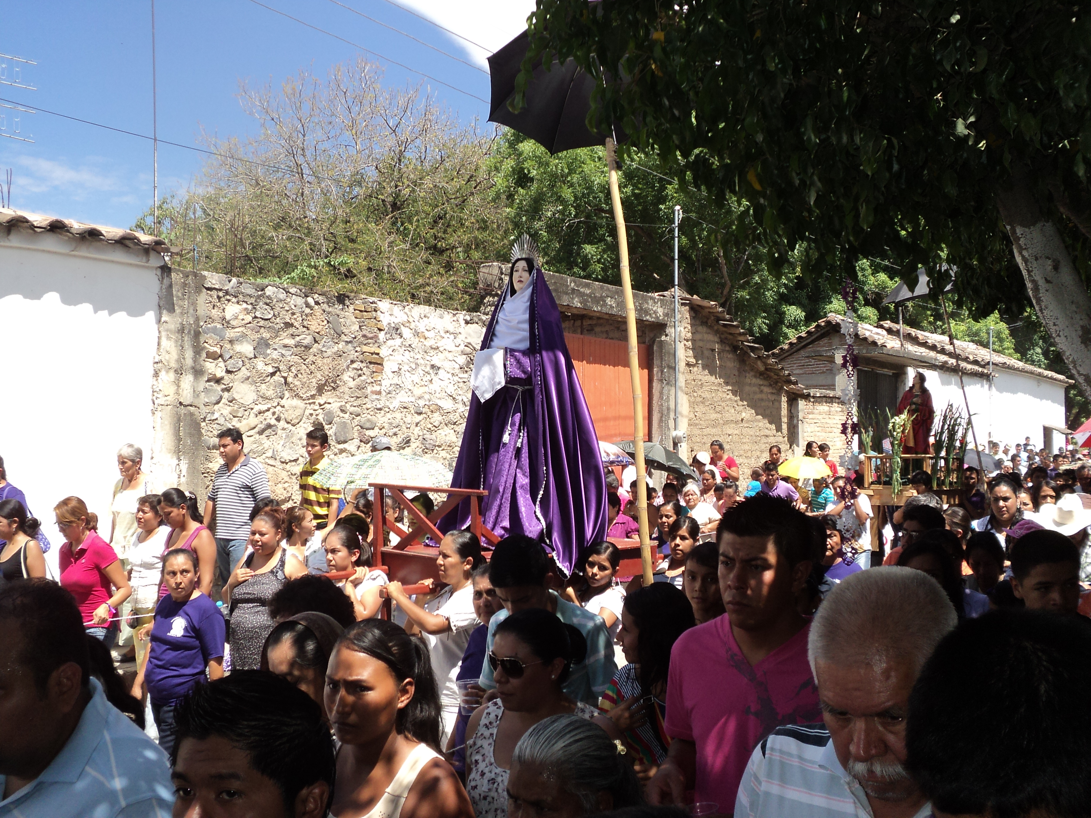 The Virgin of the Sorrows in her Holy Week procession in the town of Cocula, Guerrero, Mexico.